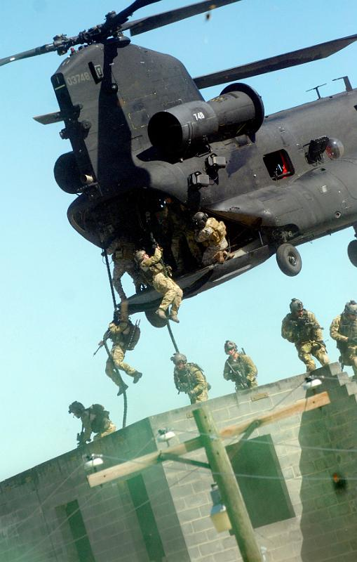 Rangers from the 75th Ranger Regiment fast-rope from an MH-47 Chinook during a capabilities exercise for the Joint Civilian Orientation Conference at Fort Bragg, N.C. on April 28, 2010.